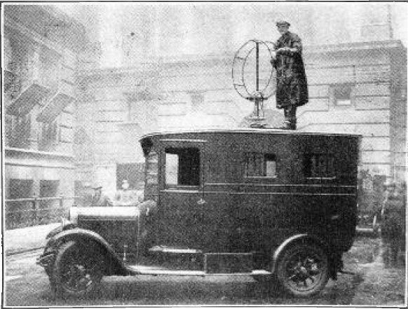 A radio direction finding truck used by the British Post Office in 1927 to find illegal radio transmissions. The source says that in addition to finding unlicensed radio transmitters operated by radio amateurs who neglected to get a license, it was also used in London to track down "bloopers" - regenerative radio receivers that produced interfering radio signals. The regenerative radio was one of the most popular types of radio during the 20s. However it used a vacuum tube with positive feedback that operated very close to its oscillation point, so when improperly adjusted it could radiate a radio signal that could produce shrieks and howls in nearby receivers. The interference problem got so bad that the British Post Office, which regulates radio communication in Britain, prohibited improperly radiating radio sets, and used this lorry to track them down. The back of the lorry contained a sensitive 3 tube radio receiver attached to the loop antenna on the roof, which could be rotated by a wheel in the lorry. The loop antenna is only sensitive to radio signals in the direction of the plane of the loop, so by rotating the antenna until the signal is strongest the direction of the interference could be determined. Thus with a crew of two, a driver and an operator for the radio direction finder, the lorry could track down the house the interference was coming from. They would give the owner a warning and information on how to prevent the problem. In Britain, radio receivers had to be licensed by the Post Office, so If he failed to fix the problem, his receiver license could be revoked, so he could not operate the receiver. The US eventually also prohibited receivers from radiating interference.